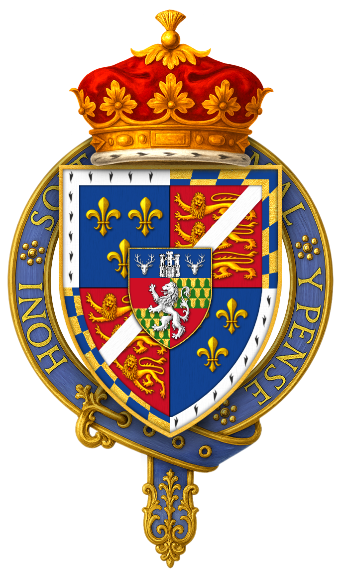 Coat of arms of Sir Henry Fitzroy, KG (later Duke of Richmond and Somerset) Based upon friezes on Fitzroy's tomb located in St. Michael's Church in Framlingham, Suffolk, England (example here)